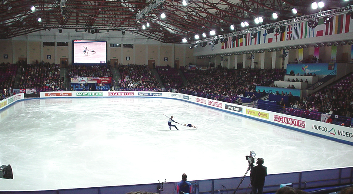 The 2007 European Figure Skating Championships. Torwar Hall (Warsaw), Stacey Kemp and David King from Great Britain.